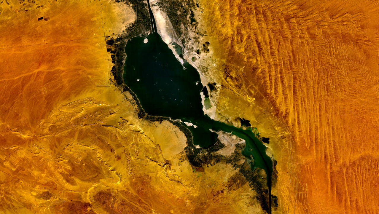 The Great Bitter Lake, as seen from space.